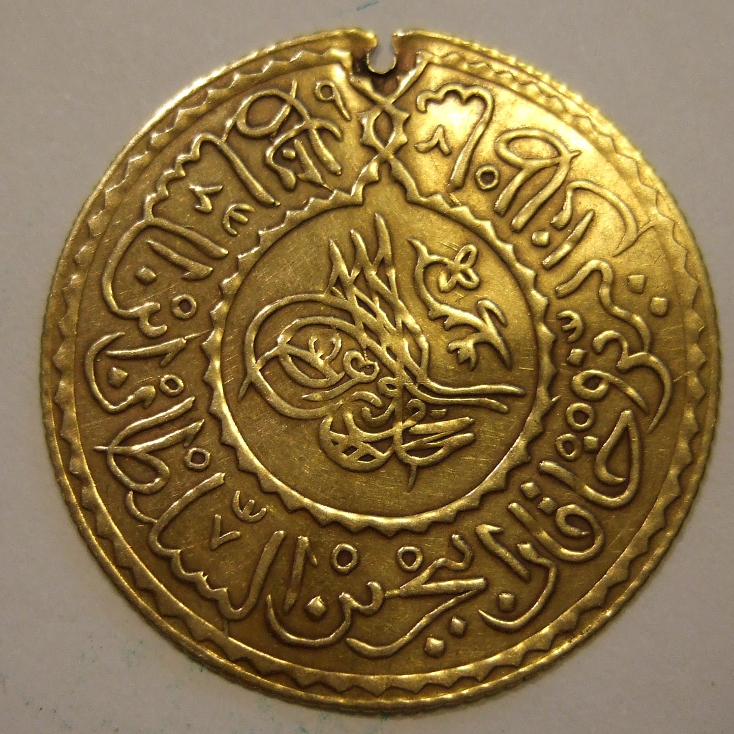 TURKEY, SULTAN MAHMUD II 1818 ---2 RUMI GOLD b